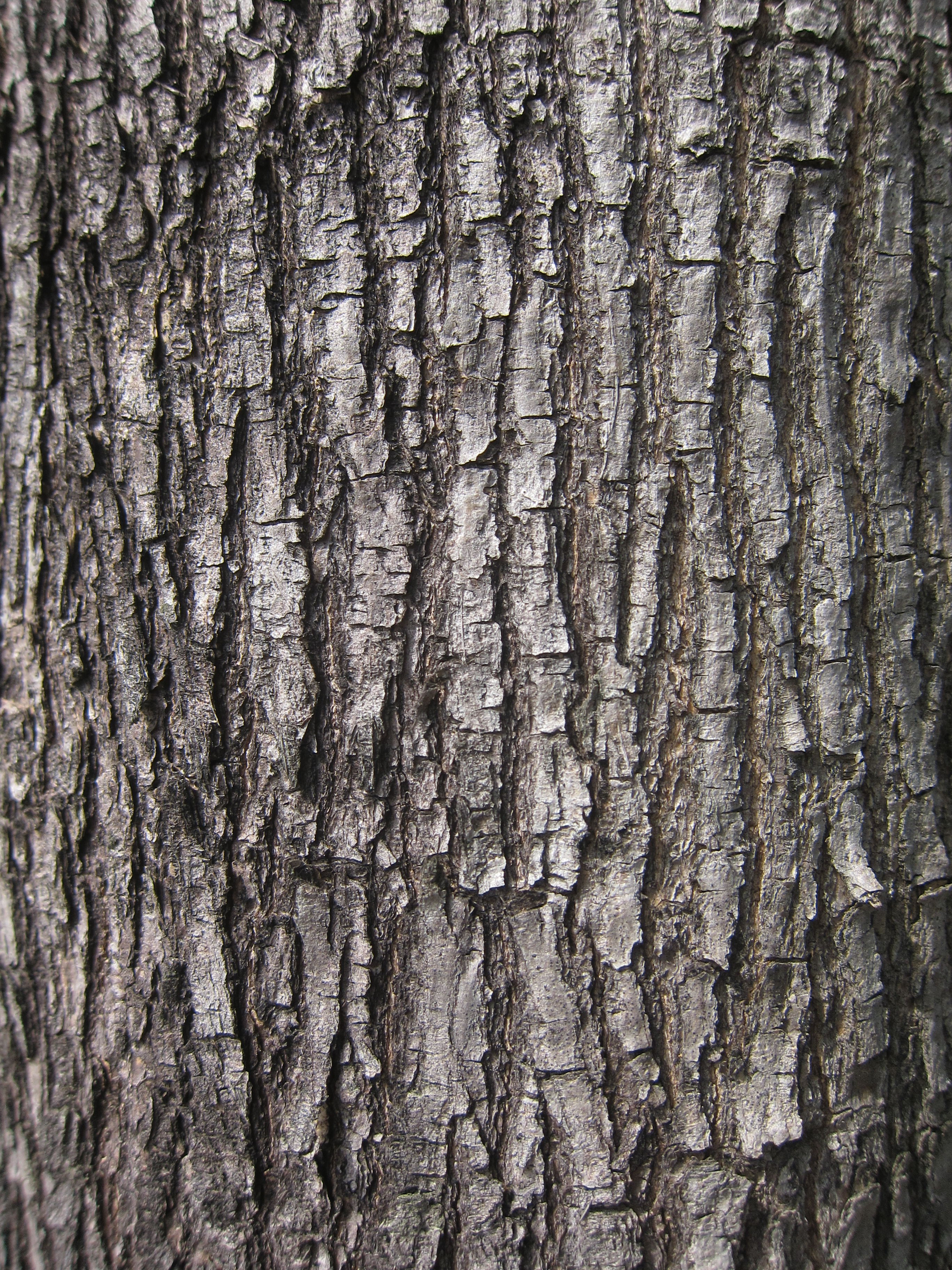 Bark of Pterocarpus indicus taken in Kowloon Walled City Park